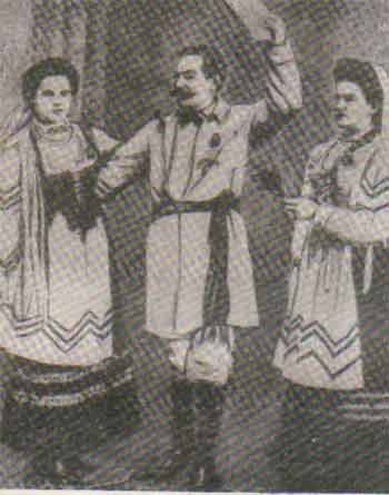 Ihnat Bujnicki